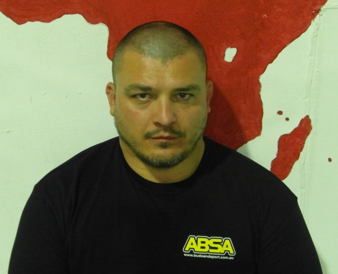 Istvan Szasz Sydney Judo ABSA